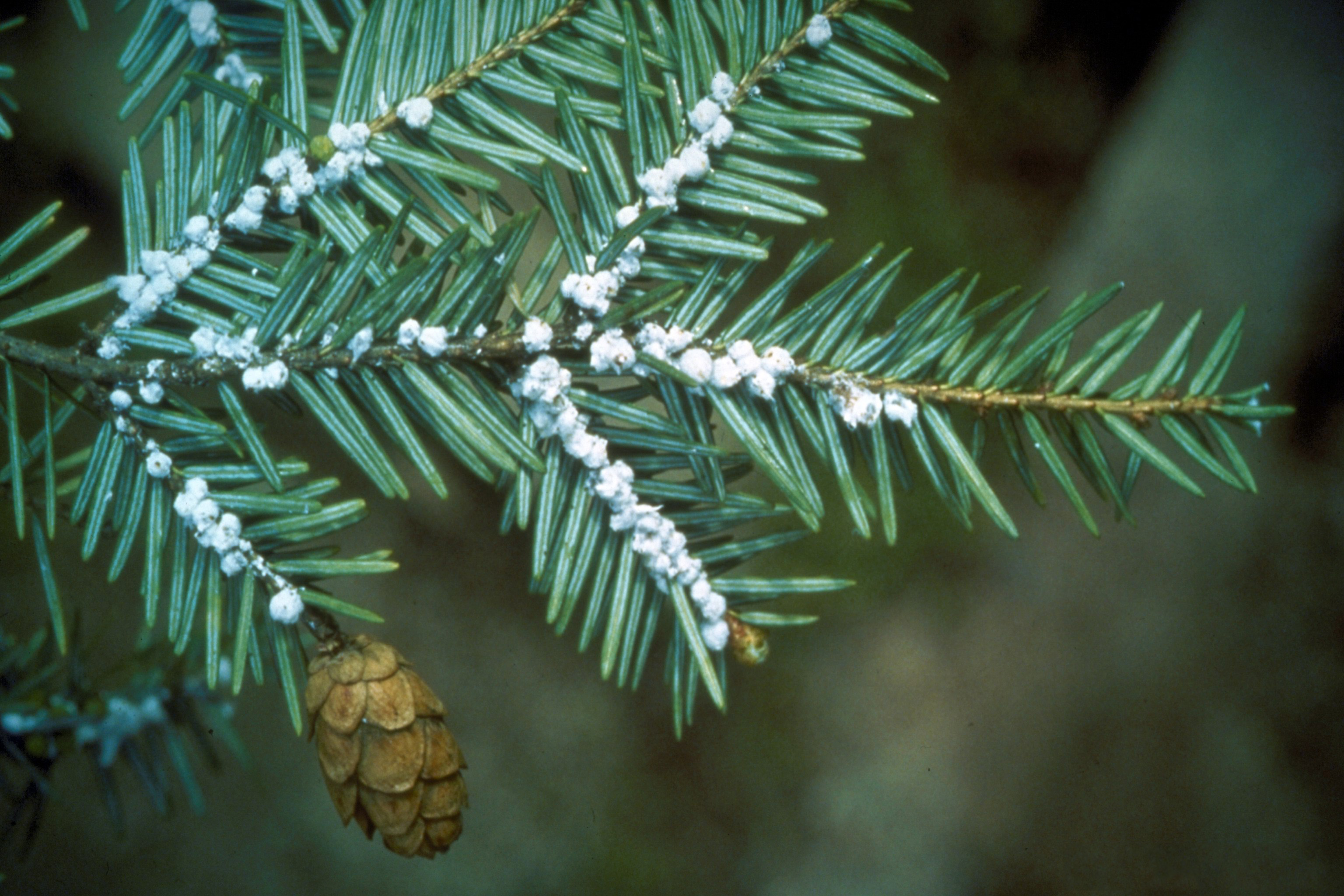 Adelges tsugae Annand Common Name: hemlock woolly adelgid Photographer: Connecticut Agricultural Experiment Station Archive, United States Descriptor: Adult(s) Image taken in: United States